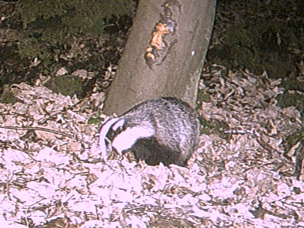 European badger Meles meles 12-16-10